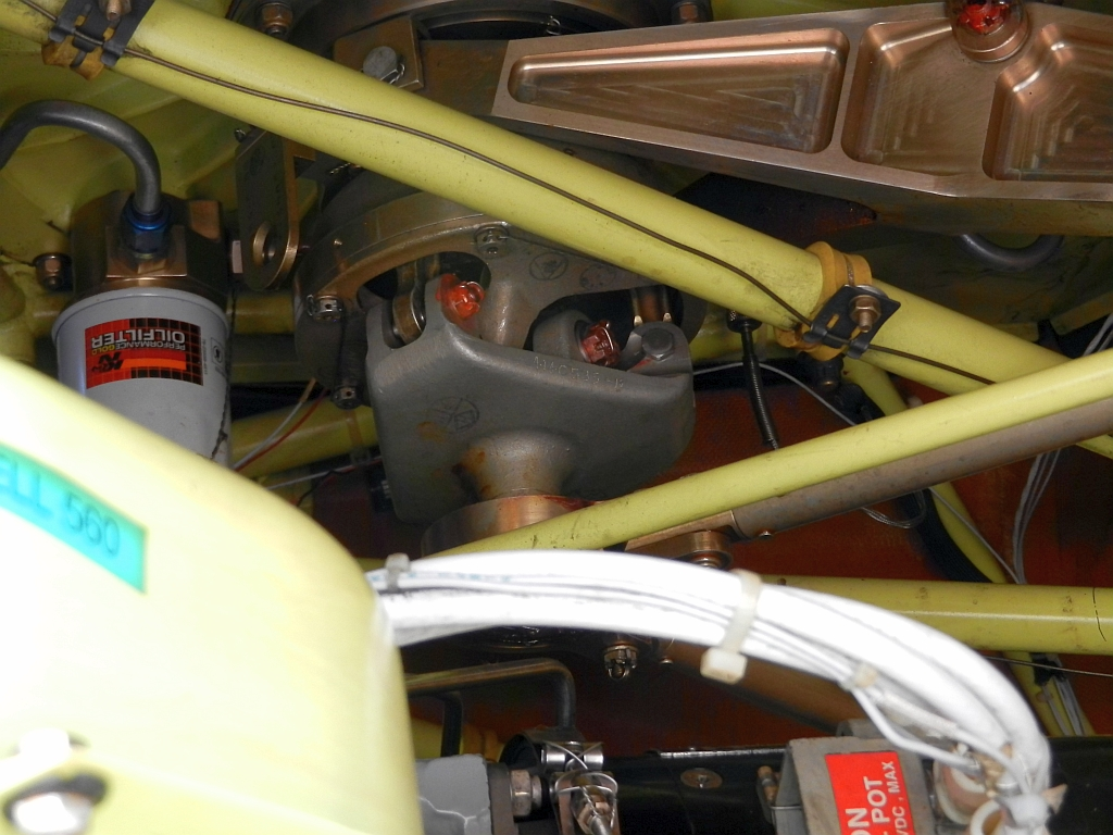 Swashplate of an Enstrom 480.